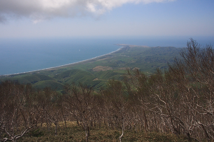 Cape Erimo seen from the top of Mount Toyoni